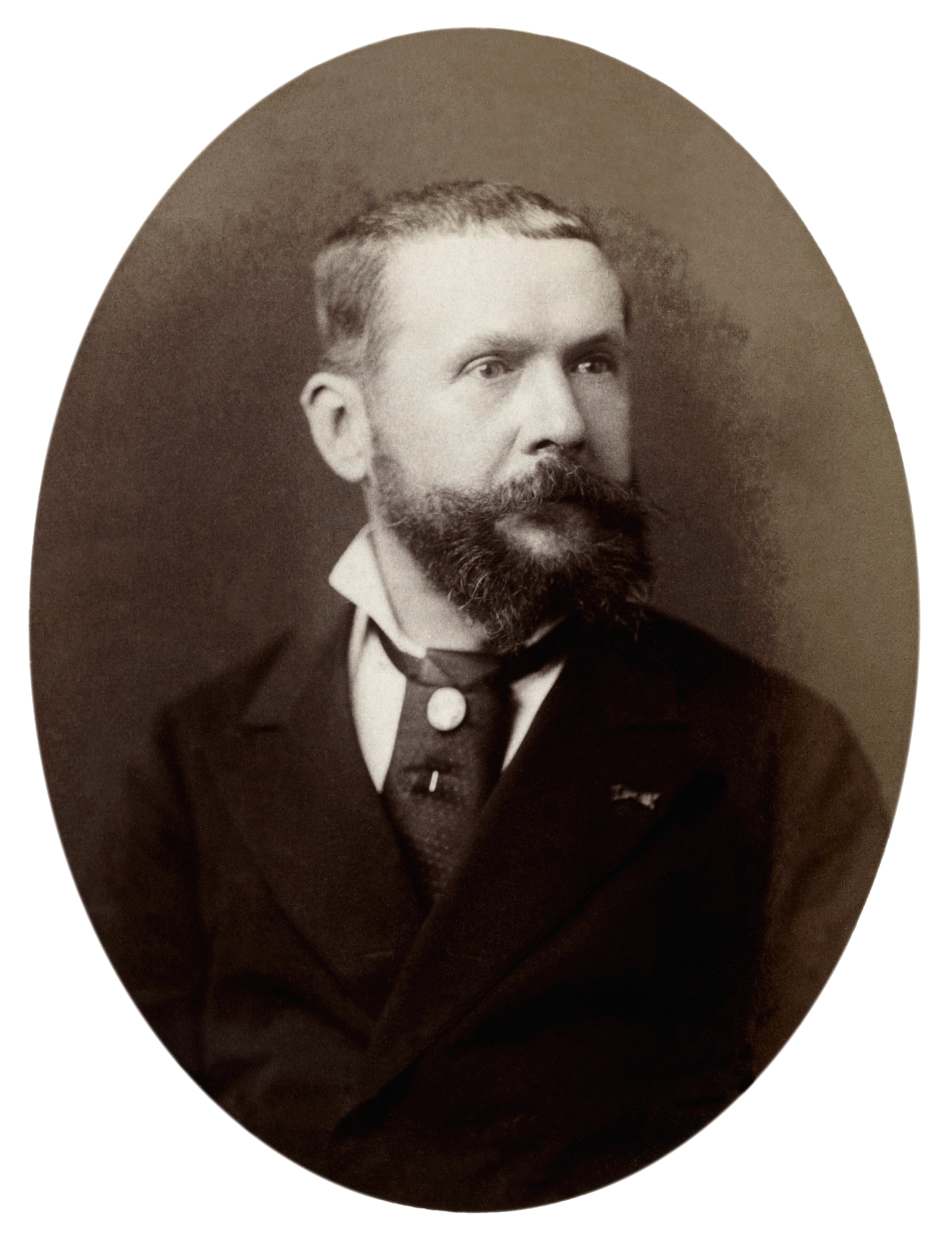 Gaston Tissandier (1843 - 1899), french scientist and balloonist.